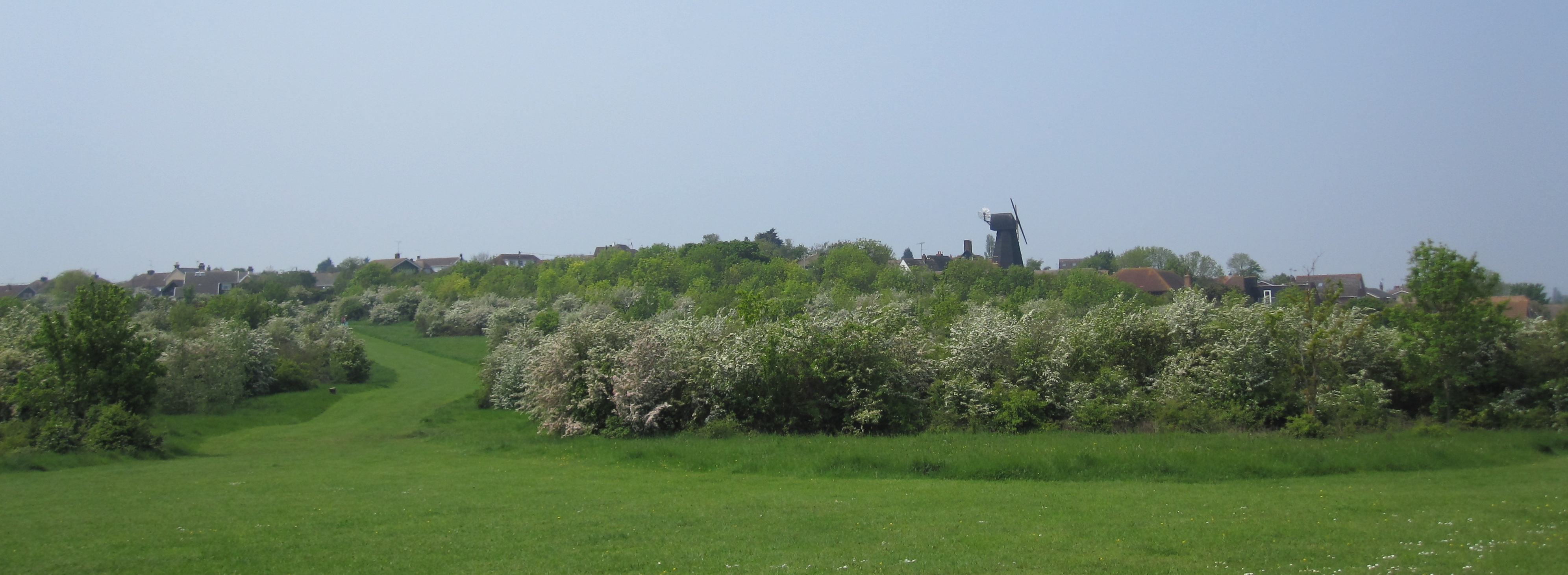 A view across part of the downs to the windmill